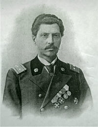 Architect Konstanrin Tersky